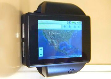 Photo of the Z1 Android Watch-Phone